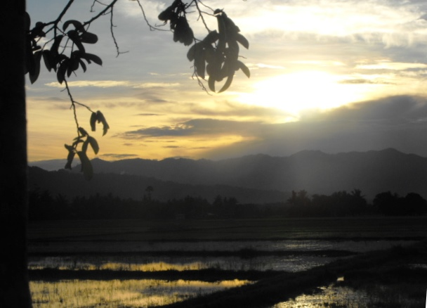 North West View Sunset, Surallah, South Cotabato